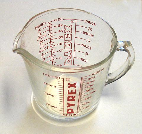 A measuring cup purchased in the United States circa 1980, showing both metric and U. S. Customary graduations. The bottom of the same measuring cup will be uploaded as :image:Measuring_cup_bottom.jpg. Copyright ©2006 by Daniel P. B. Smith and released under the GFDL.